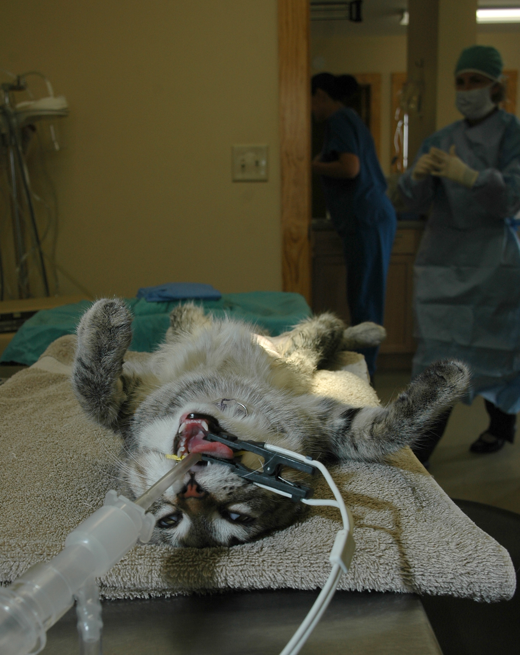 Cat intubated for spay/neuter surgery